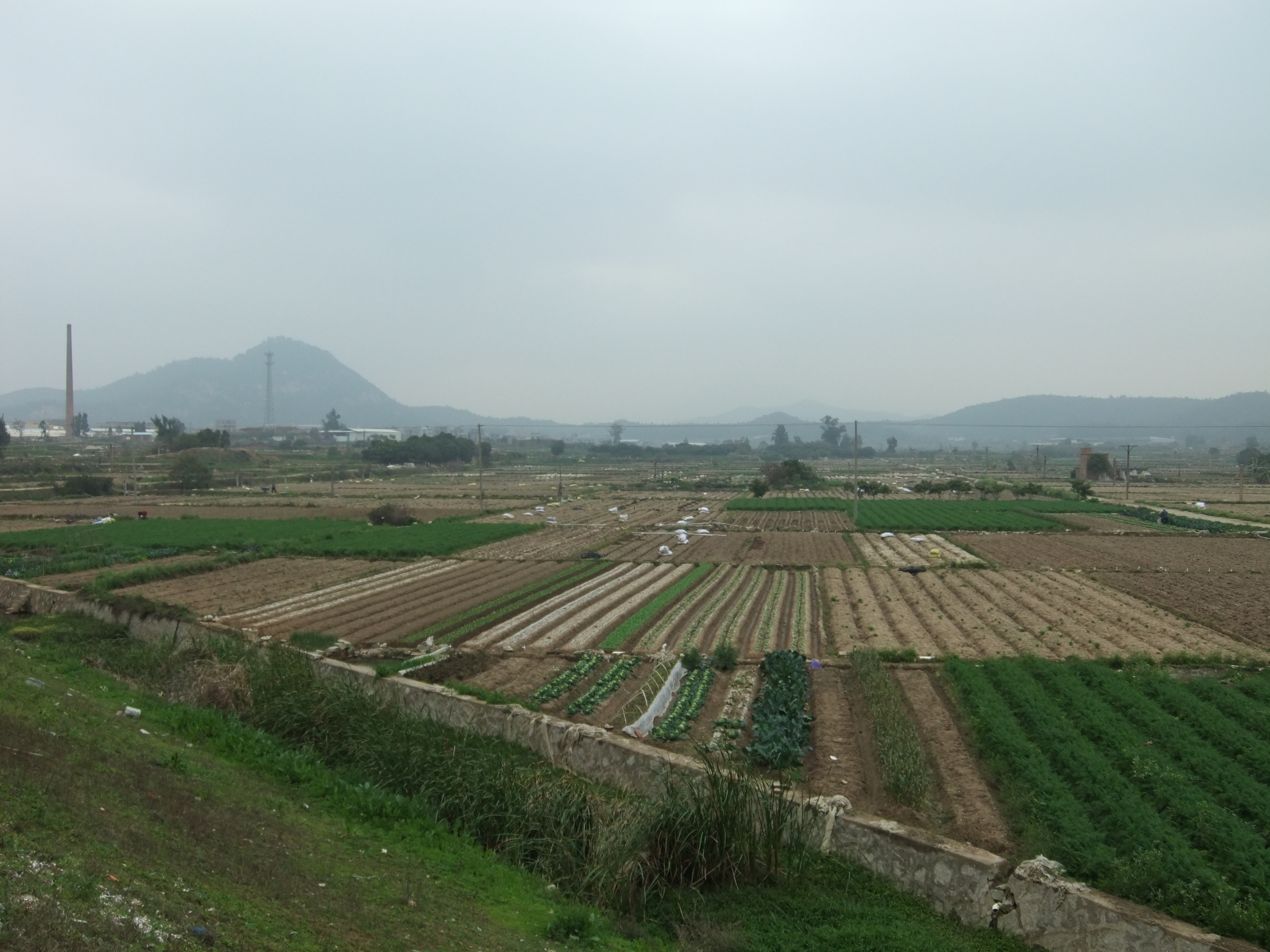 Agricultural landscape off Hwy S201 in Xiang'an District, just west of Lianhe and Qianban villages (which are at the eastern border of the district)